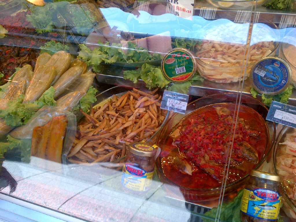 "Havyar" (roe), "lakerda" and "çiroz" at the Historic Market of Kadıköy, Istanbul.